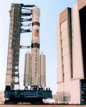 FLO Comet HLV Verticle